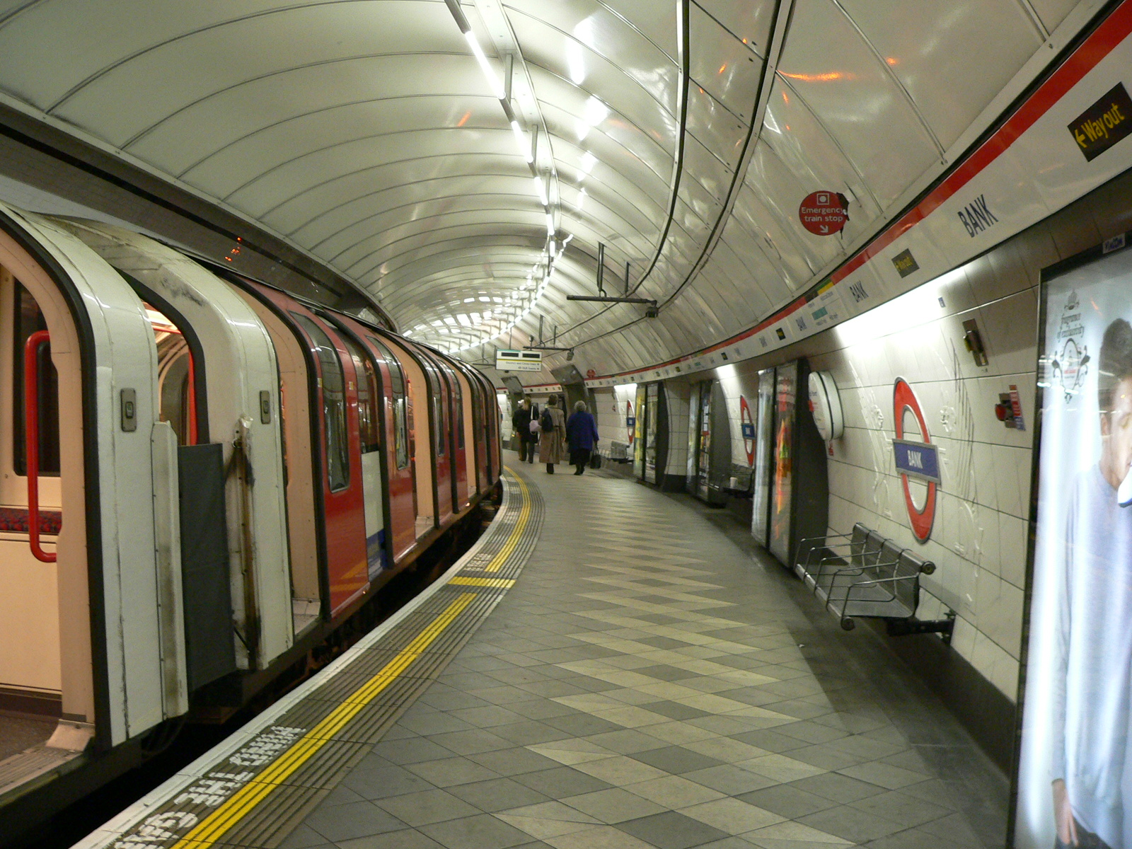 The Central Line platforms at Bank station is on one of the sharpest curves on the entire London Underground network.